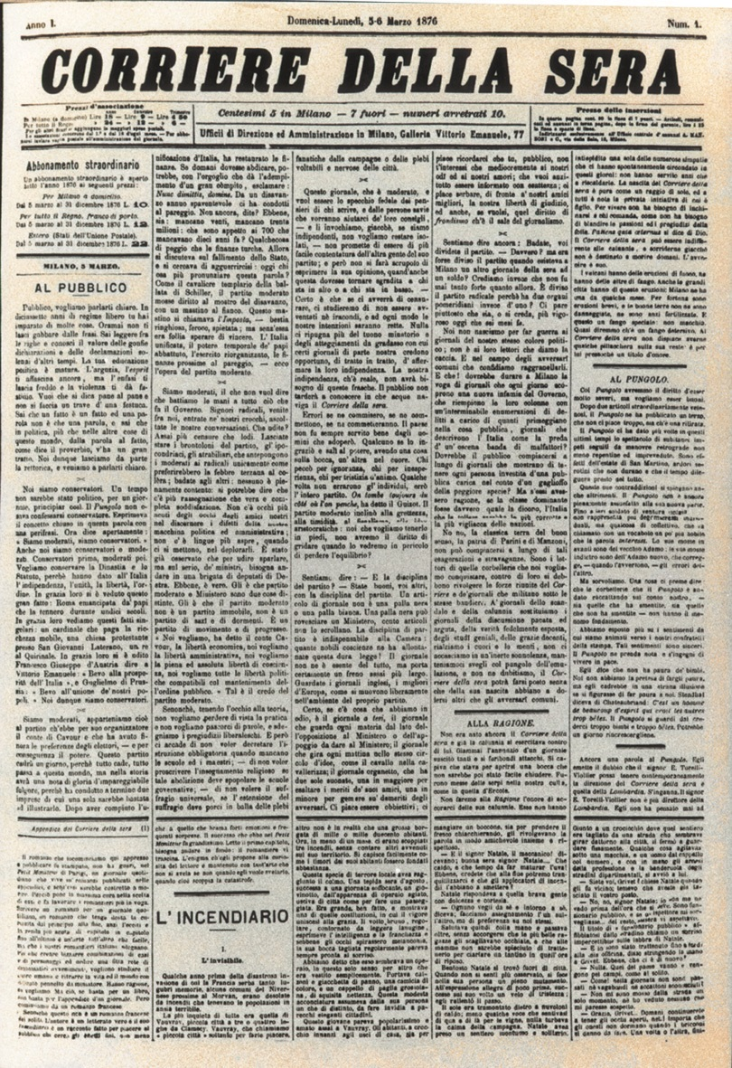 Very first issue Corriere della Sera